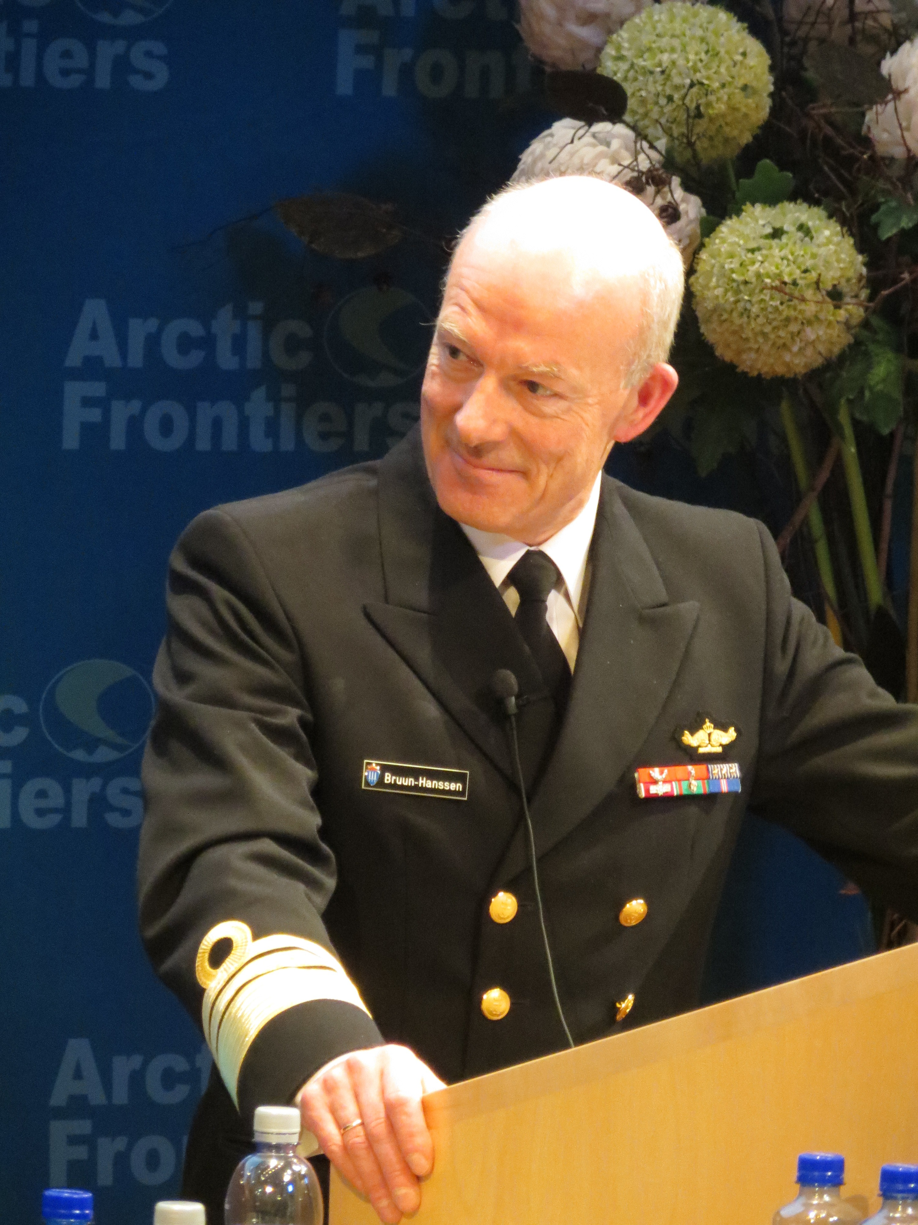 Håkon Bruun.Hanssen, rear admiral of the Norwegian Navy, and joint Chief of Staff of the Norwegian Defence. At the Artcic Frontiers conference in Trømsø, 2013.